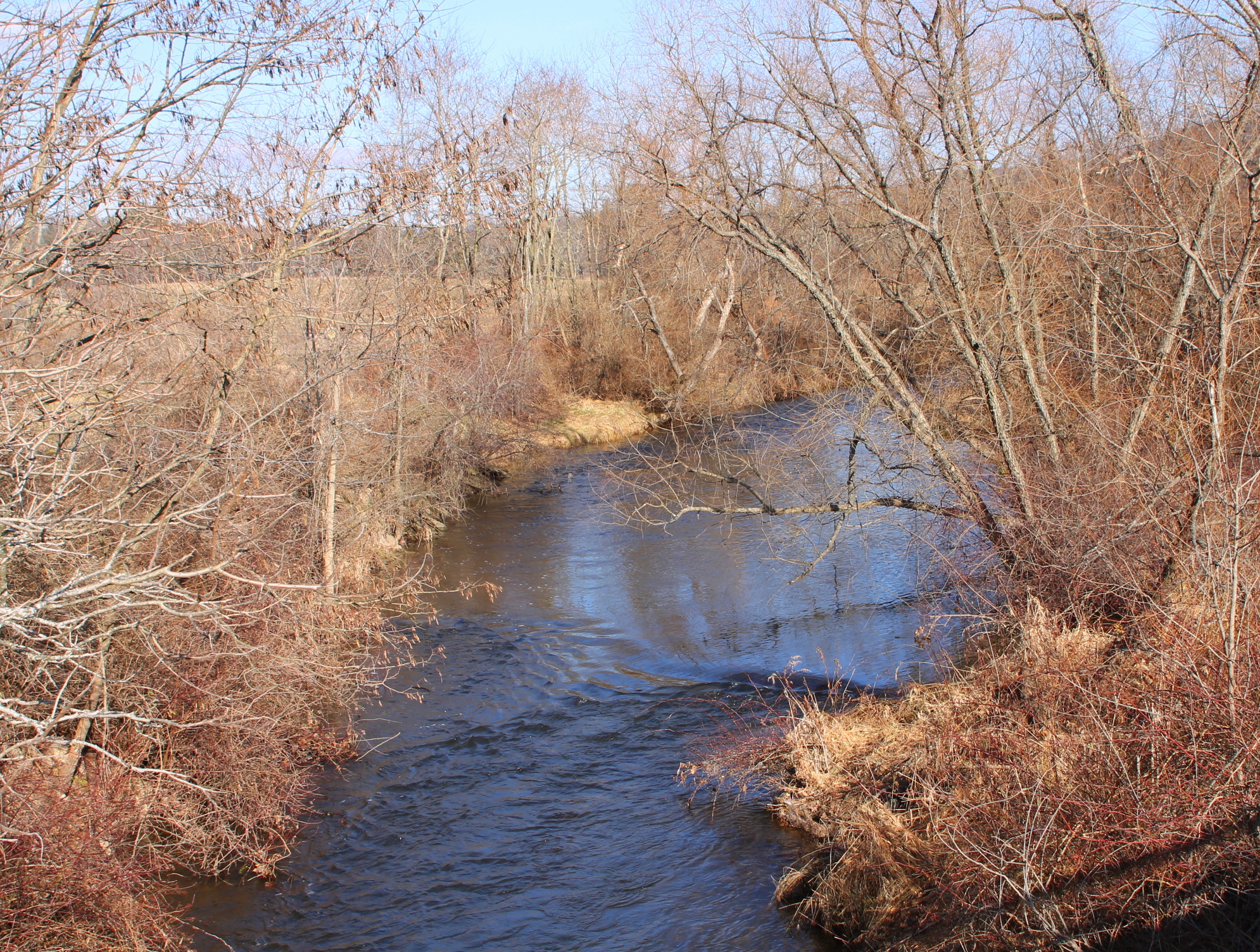 Pine Creek looking upstream in New Columbus, Pennsylvania